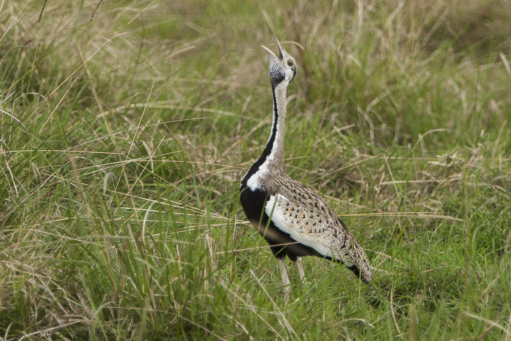 Blackbellied Bustard - Mara - Kenya_cr0001